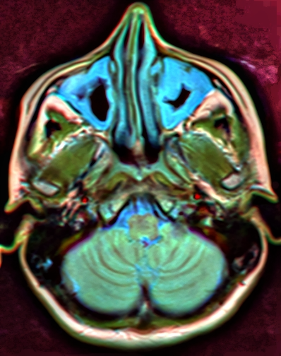 False color brain MRI, Red T1, Green PD tse, Blue T2 tse. Mucosal thickening in both maxillary sinuses Trichromatic, False color MRI T1 in Red channel, PD in Green channel, T2 in Blue channel. Key to colors: Cyan / Blue : Water, Cerebrospinal fluid, Eyes, Edema Green: Gray matter Light Green: Parotis, Salivary glands Dark Green: Muscles Brown / red : White matter Red: Large arteries Dark red: Veins Whitish yellow: Fat Black: Air, signal void